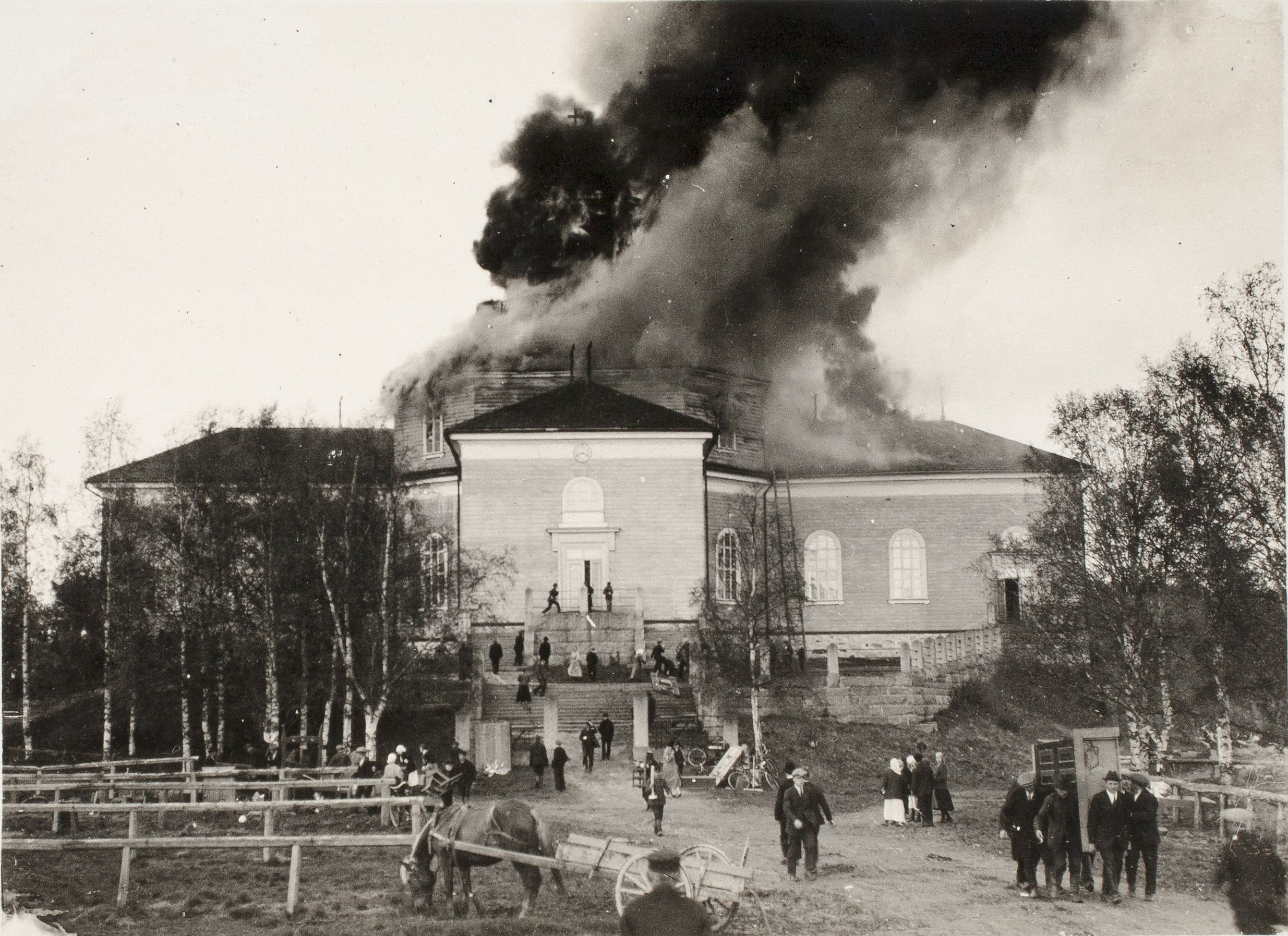 Jämsä old church burning in Finland in 1925